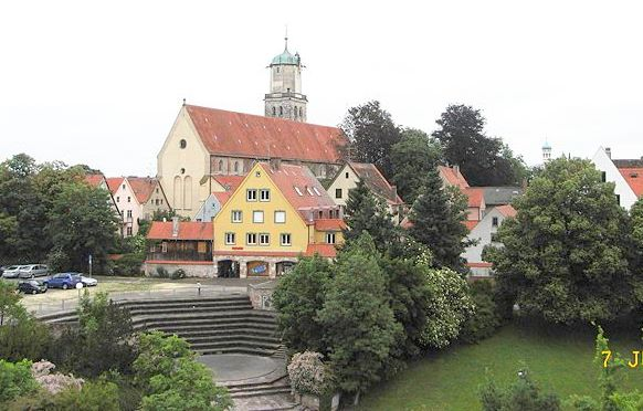 St. Martin of Memmingen in swabia. Photographed from westside (Parkhouse of Warehouse Karstadt).